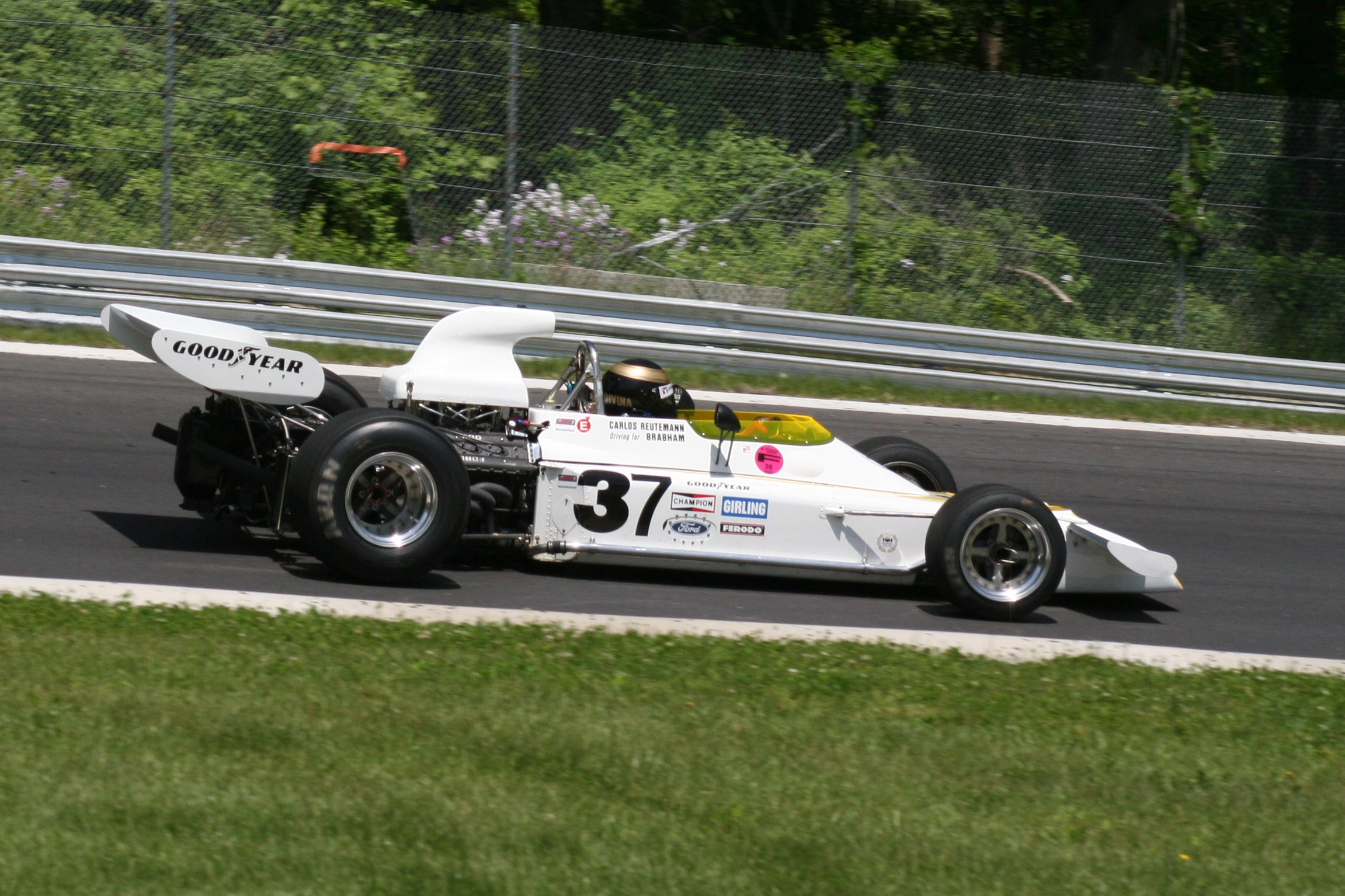 Divina Galica driving an ex-Carlos Reutemann Brabham BT37 in a Historic Grand Prix at Lime Rock Park in 2009.